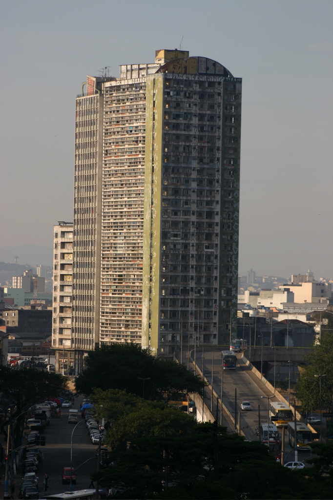 Edificio Sao Vito, on the eastern edge of Sao Paulo's downtown. Abandoned and then invaded by squatters the building is sometimes referred to as a "vertical favela". See also Image:Vertical favela - São Vito.jpg.